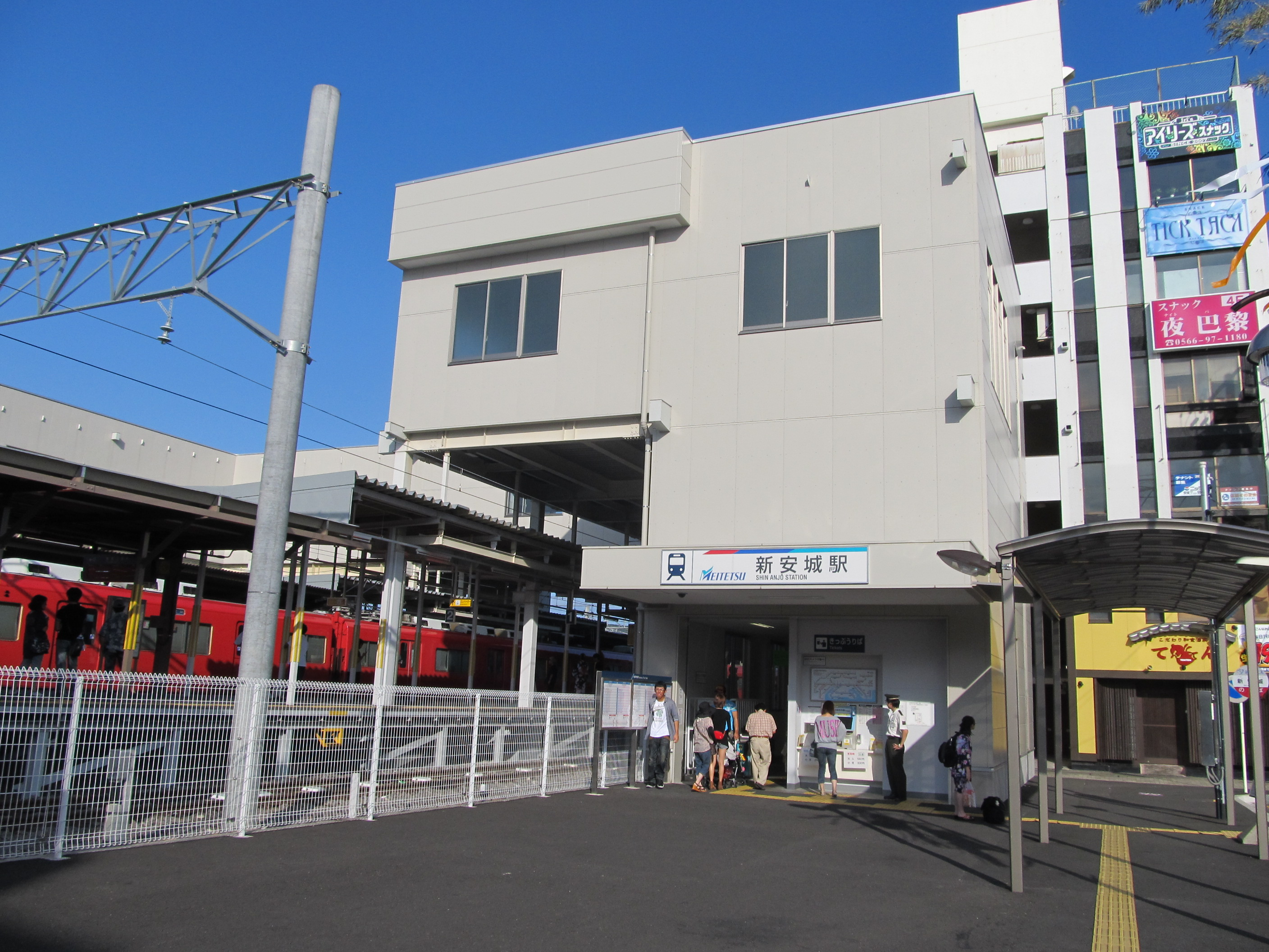 Nagoya Railroad Nagoya Main Line Shin Anjō Station Elevator only Ticket Gate (South)